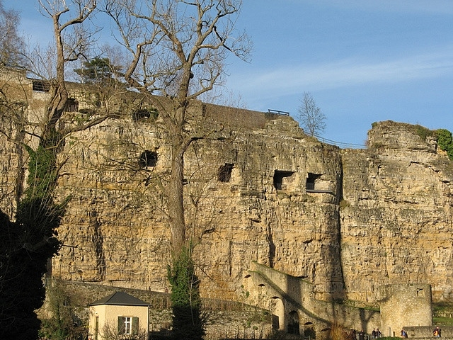 The Bock cliff in Luxembourg city.